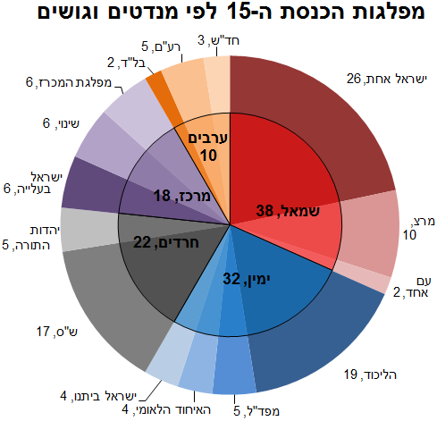 Seats in the 15th Israeli Knesset by parties and party clusters